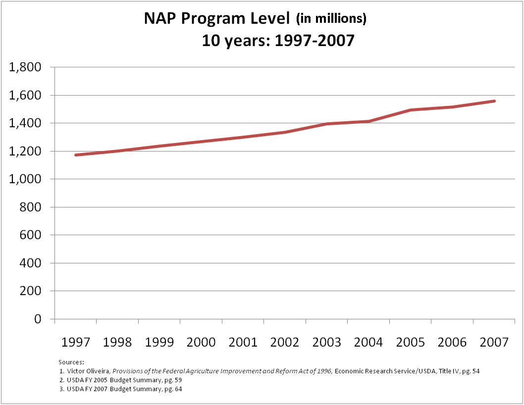 This is a graph detailing the estimated federal program levels of the Nutrition Assistance for Puerto Rico program from 1997 through 2007. It considers appropriations and expenditures.